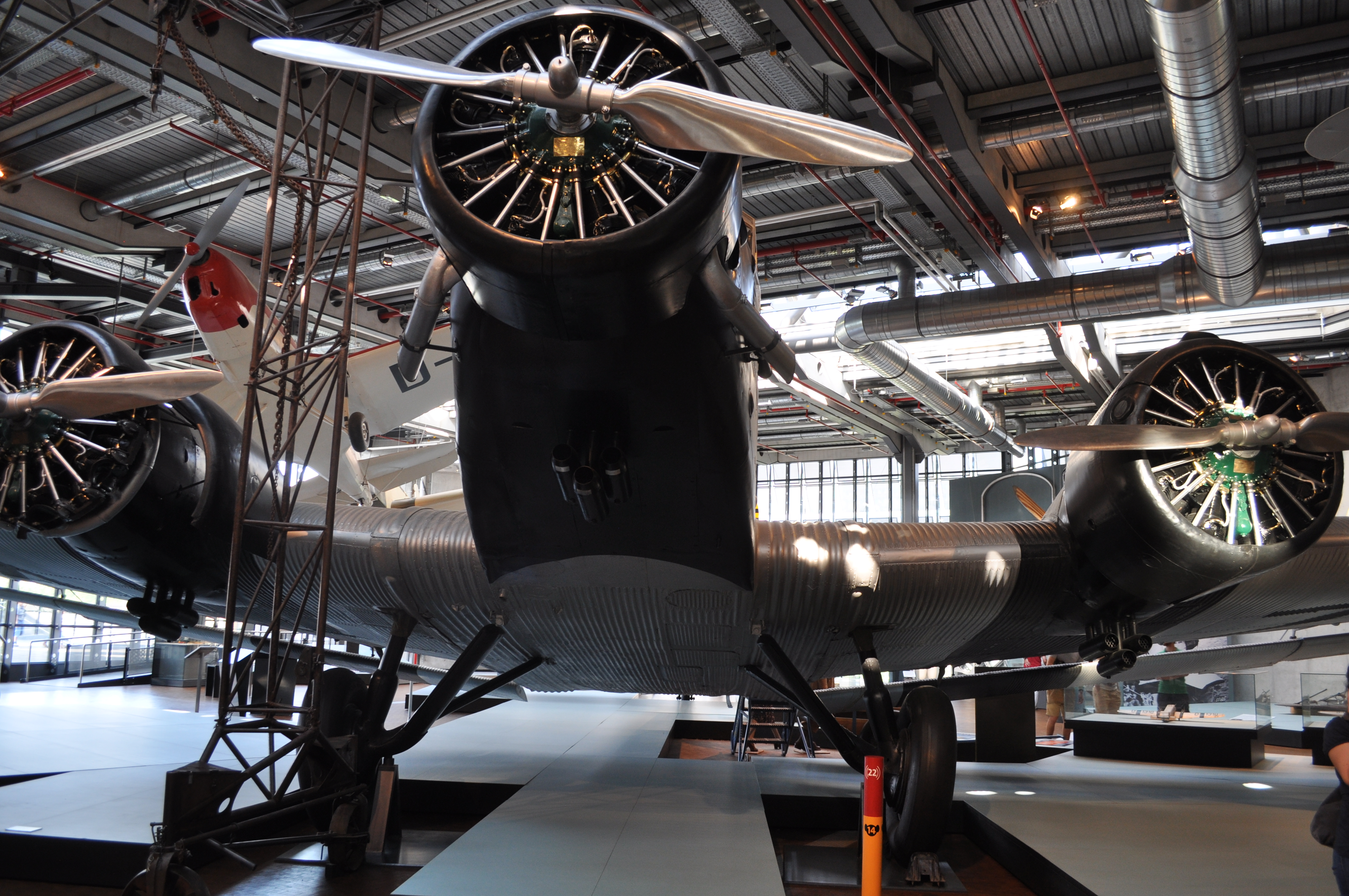 A Junkers Ju 52/3m (D-AZAW) on display at the Deutsches Technikmuseum Berlin